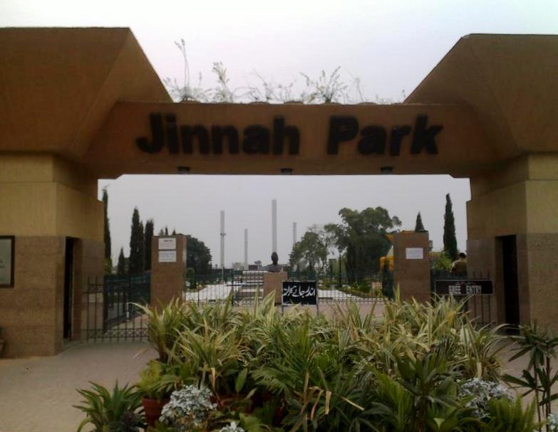 Jinnah Park Rawalpindi - Main entrance gate